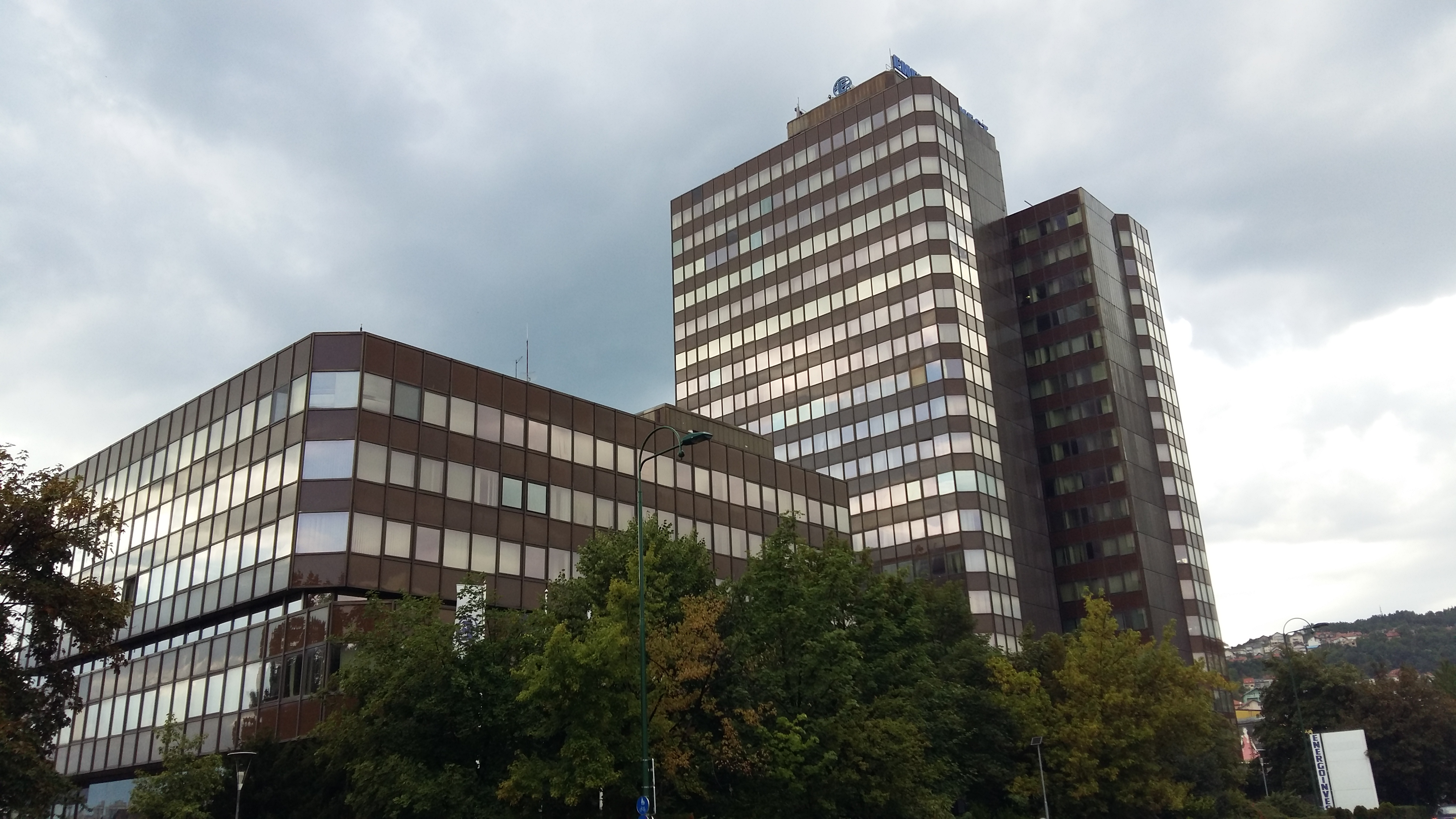 The headquarter of the bosnian company Energoinvest in Sarajevo.